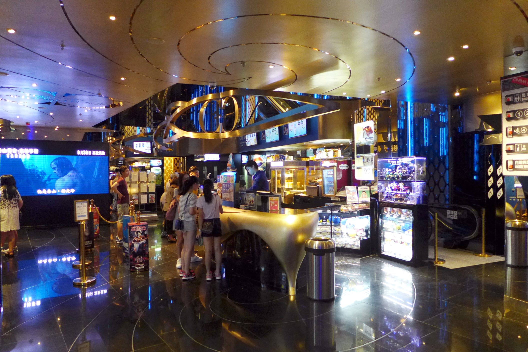 Cinema City Langham Place Lobby